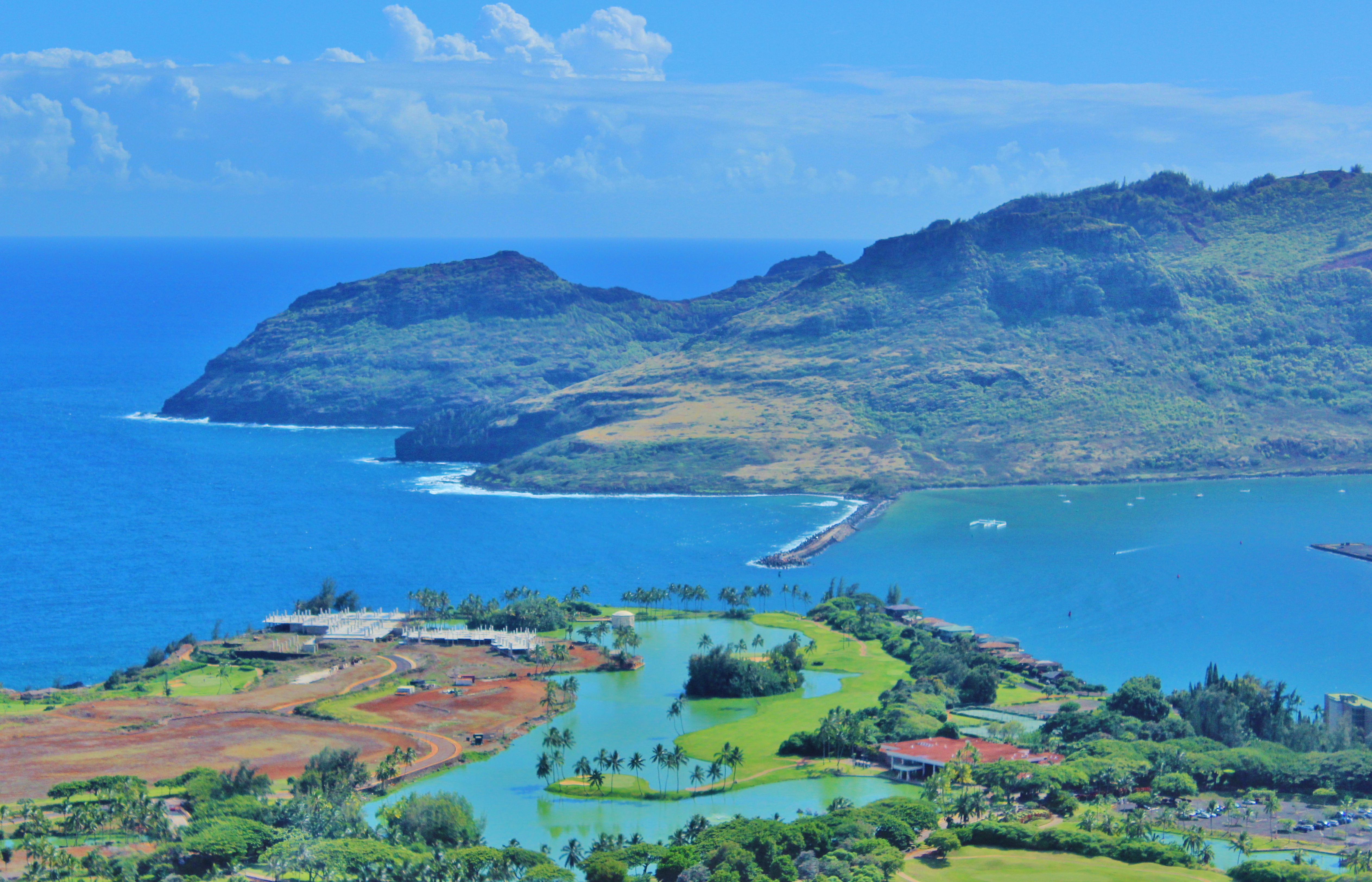 Aerial View of Nawilili Bay (Lihue, Kauai, Hawaii) From Helicopter